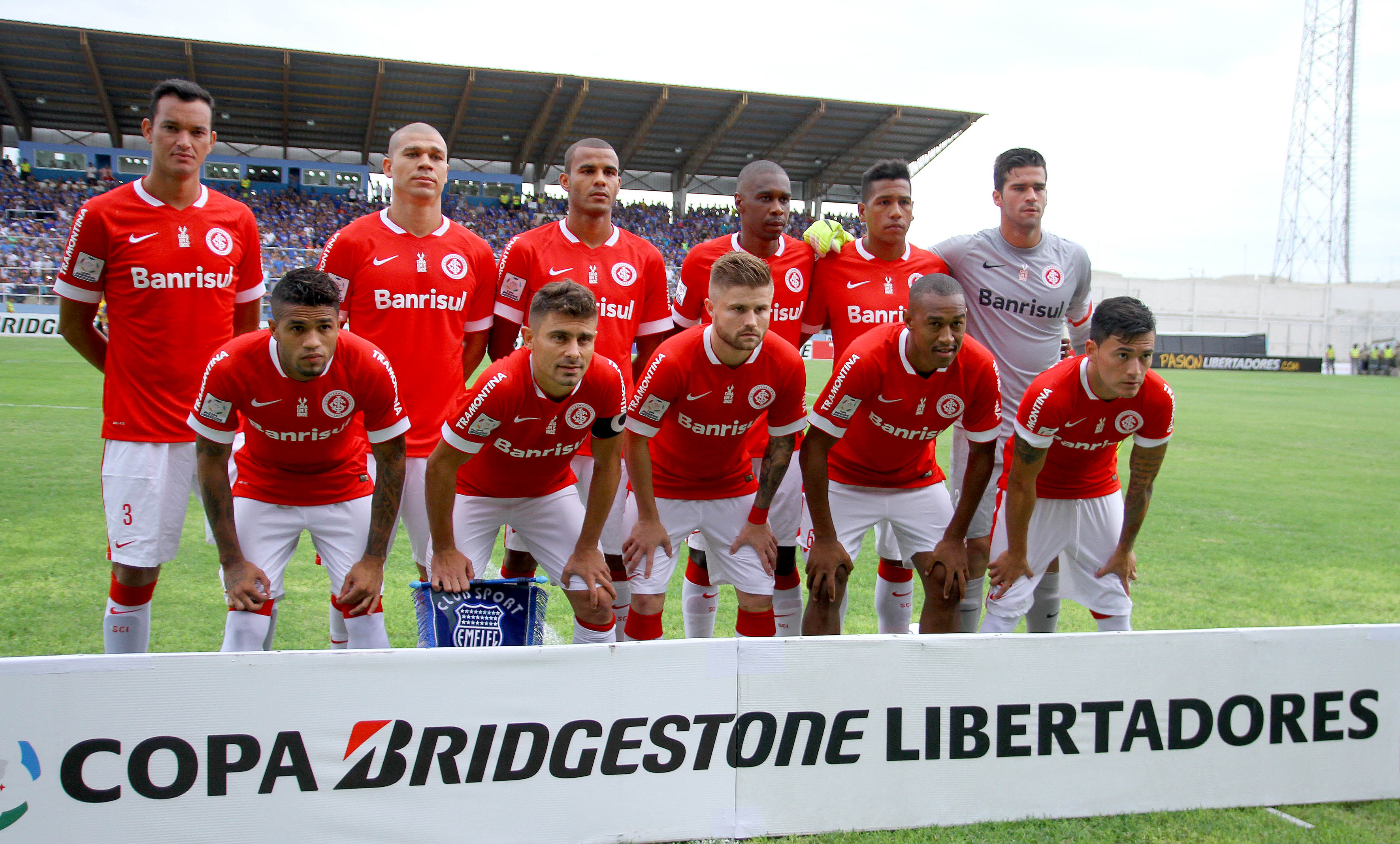 SC Internacional Line-up against Emelec: 22 Alisson, 14 Ernando, 4 Juan, 3 Rever, 2 Léo, 5 Nicolás Freitas, 19 Nilton, 20 Charles Aránguiz, 12 Alex, 6 Fabricio, 9 Eduardo Sasha